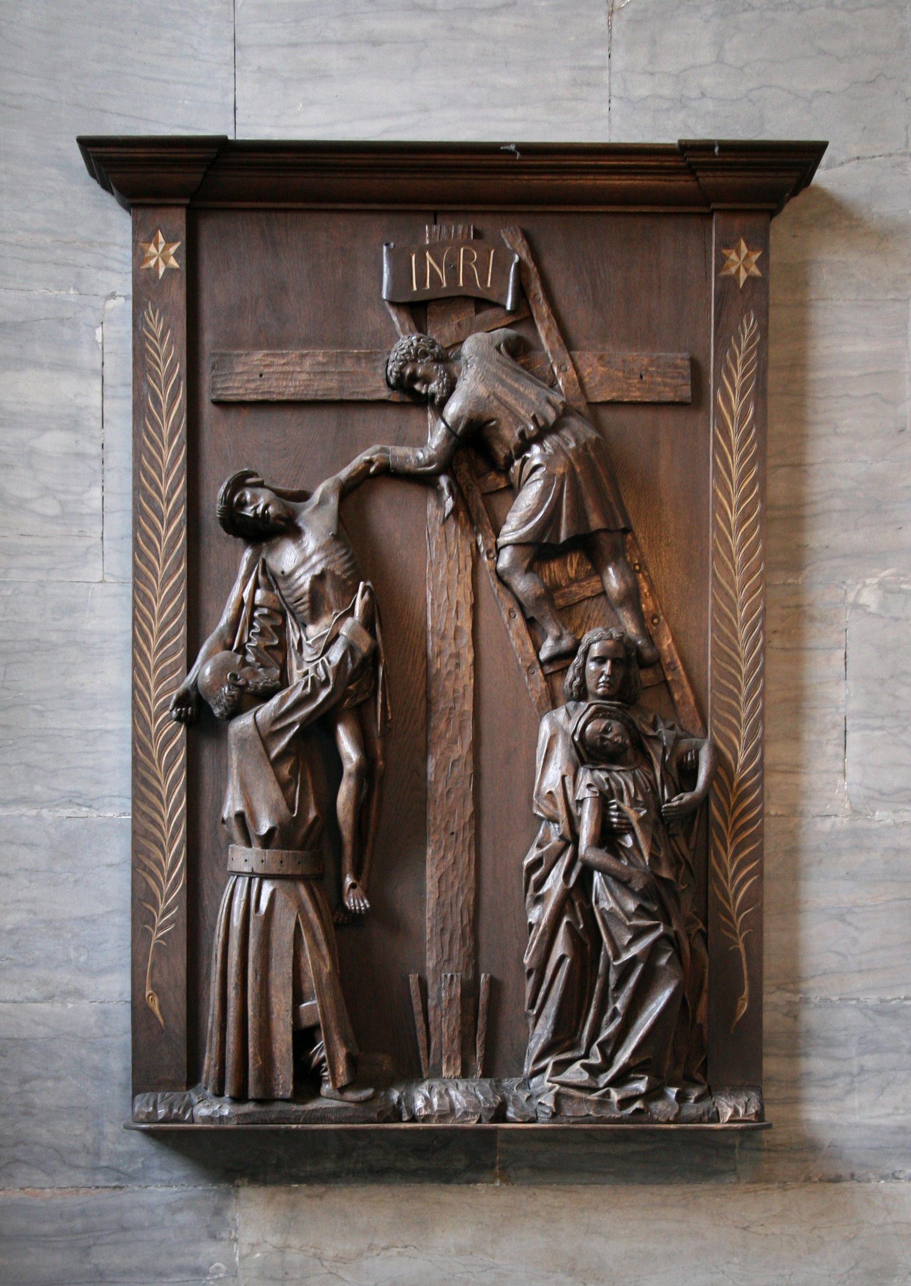 Marmorkirken, Copenhagen, Denmark. Late medieval relief, now placed by the entrance.